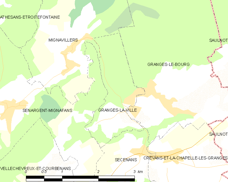 Map of French municipality